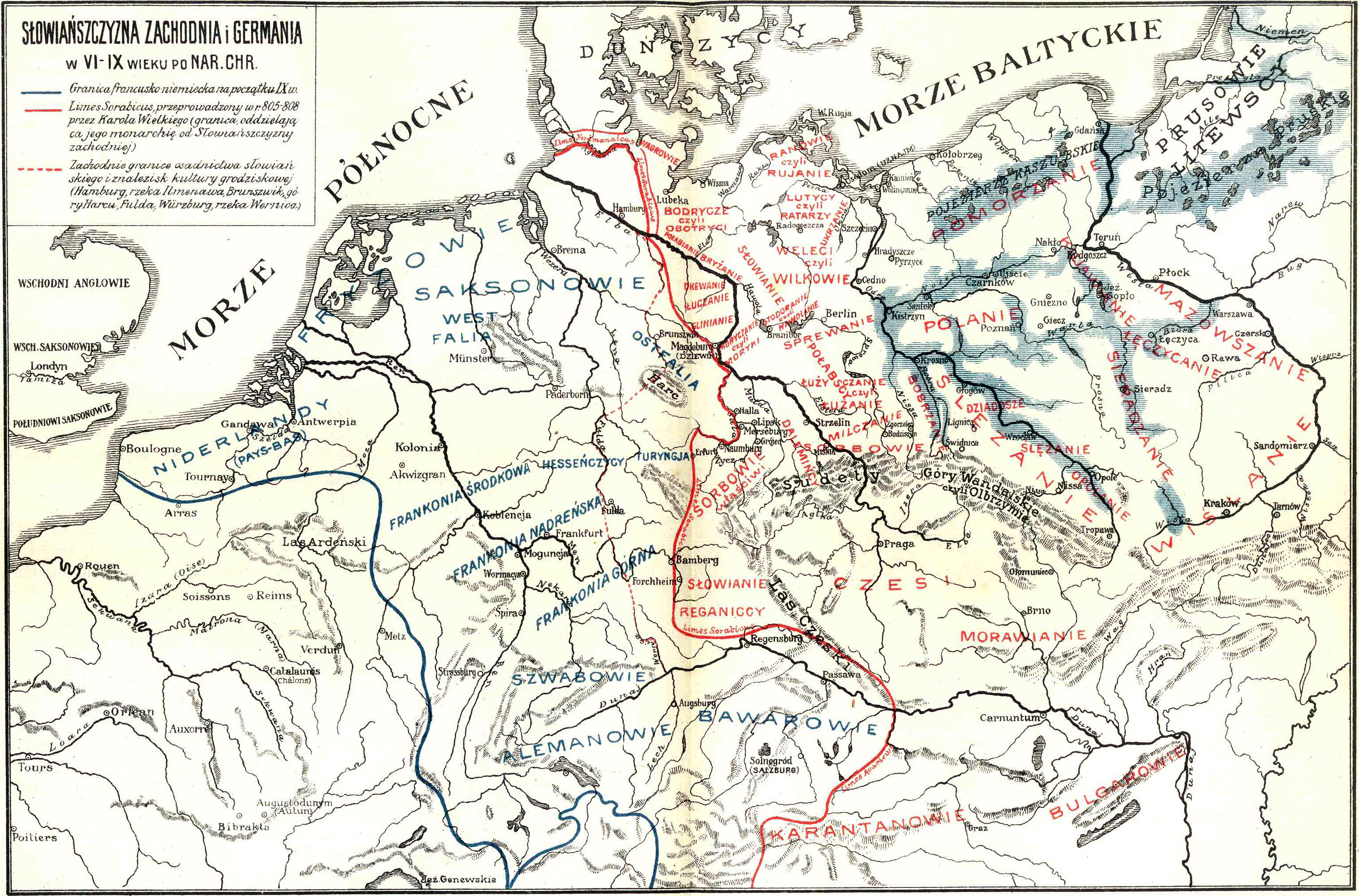 West border Slavs territory in 9 c. and Limes Sorabicus